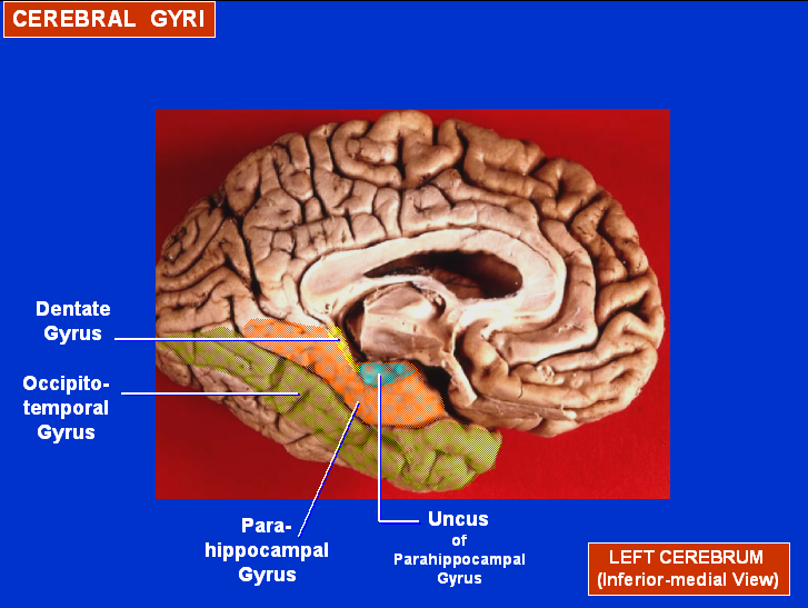 Map of Gryi of human left hemisphere.